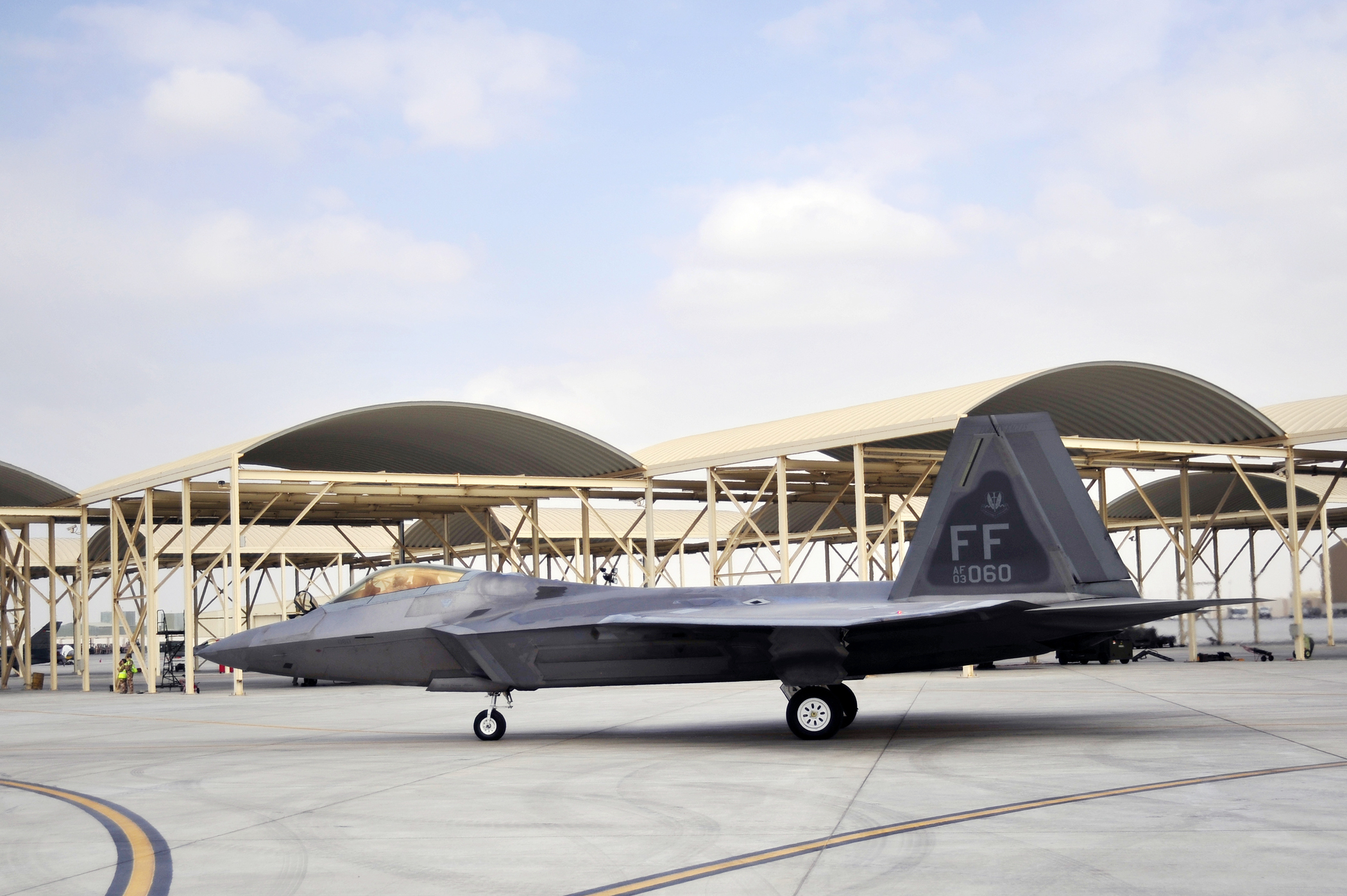 AL DHAFRA AIR BASE, United Arab Emirates - Capt. Matthew Howard, 1st Fighter Wing pilot taxis an F-22 Raptor to the runway for take-off Nov. 30, 2009. Captain Howard is participating in the Iron Falcon exercise while on temporary duty from Langley Air Force Base, Va. Captain Howard hails from Warrensburg, Mo.